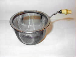 A picture to show what a tea strainer looks like.